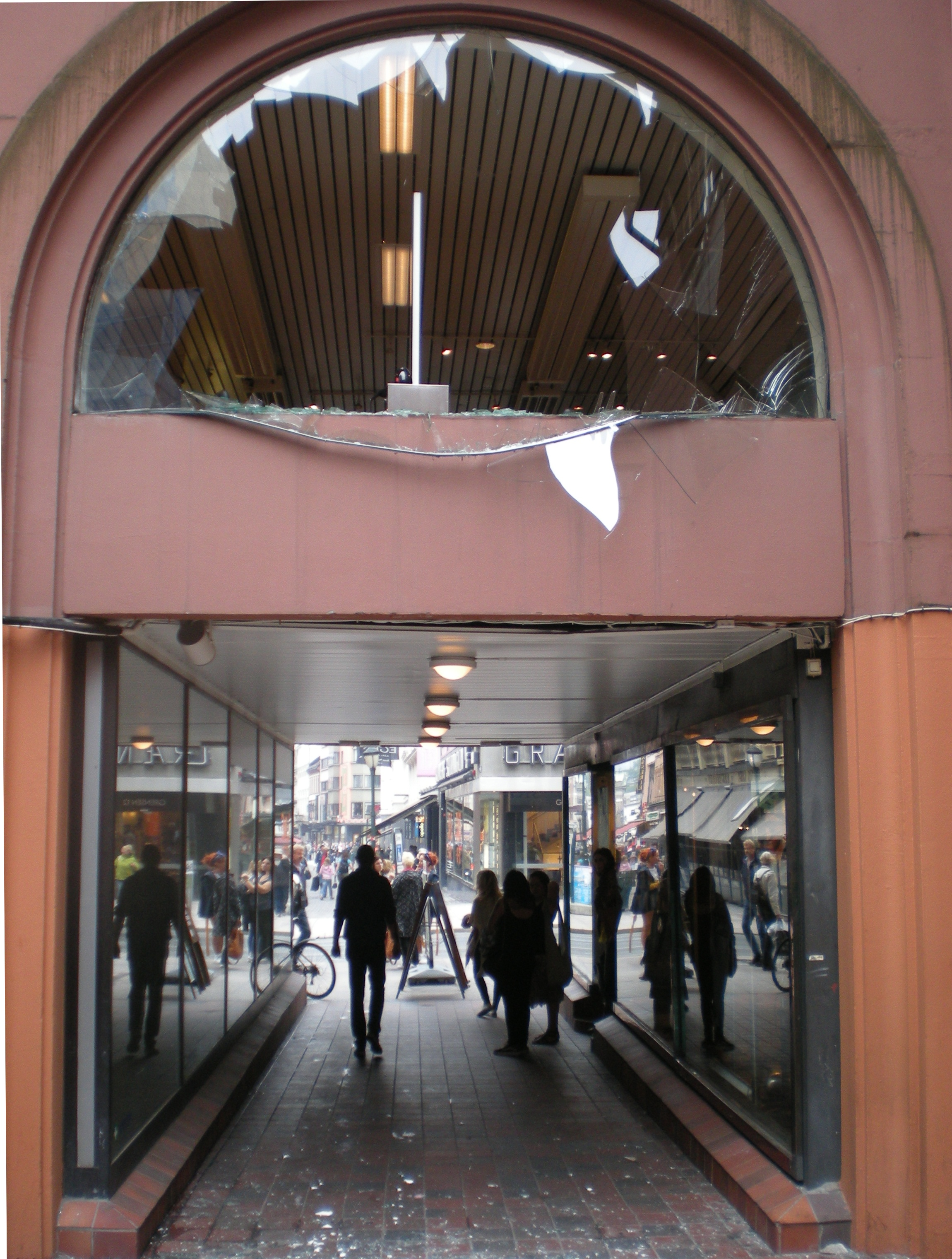 Damages to a shopping mall approx. 300 meters from the centre of the Oslo bomb blast July 22, 2011.